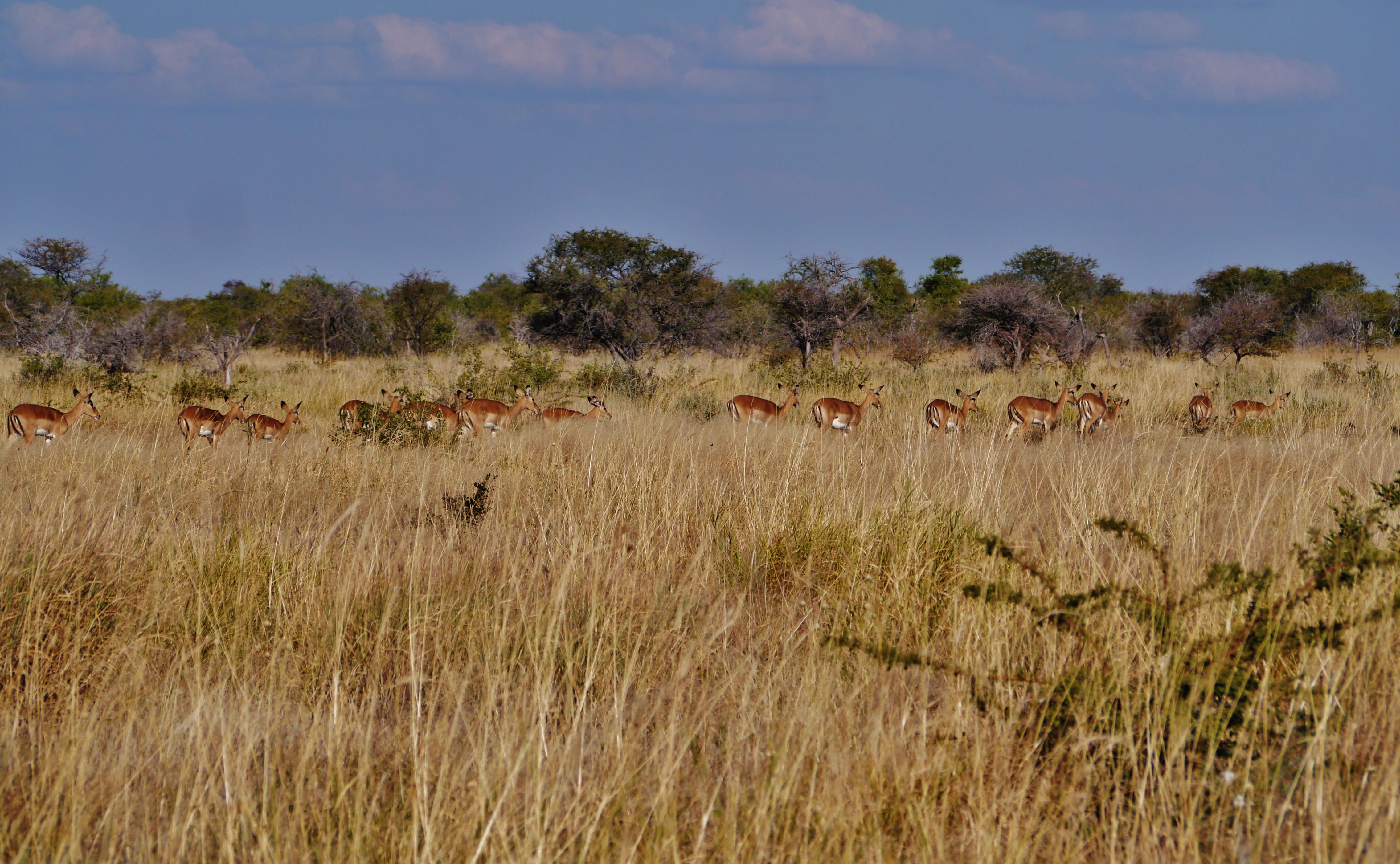 Impalas at the Etosha National Park, Regions of Oshikoto, Otjozondjupa, Oshana & Kunene, Namibia